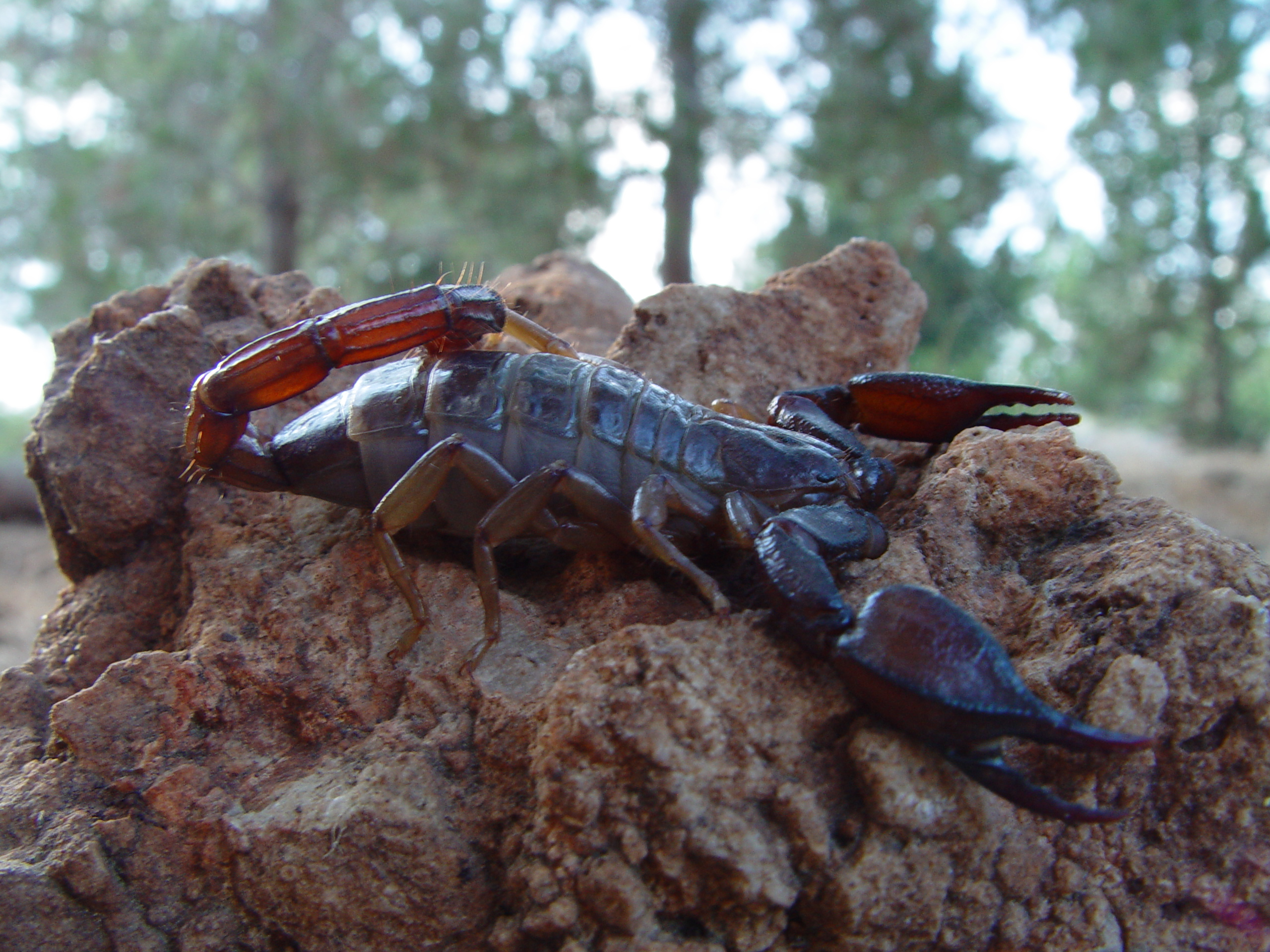 Scorpion Nebo hierichonticus, Israel